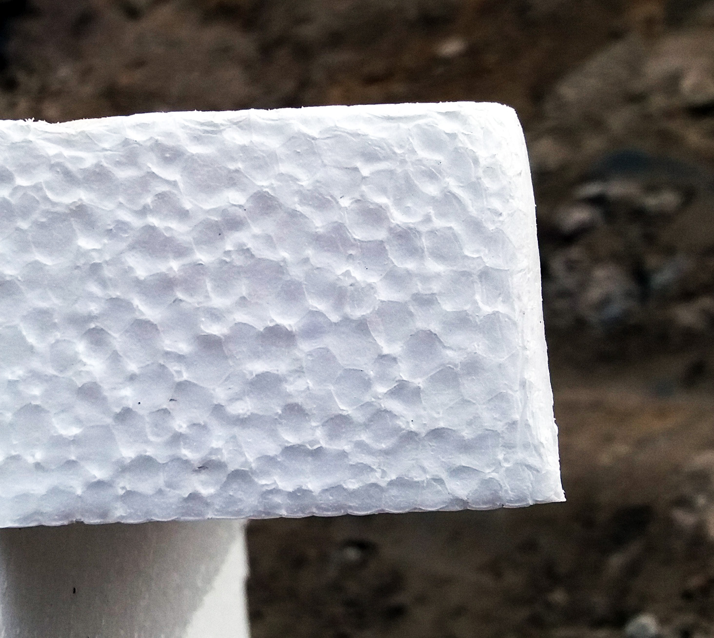 Insulation plate.